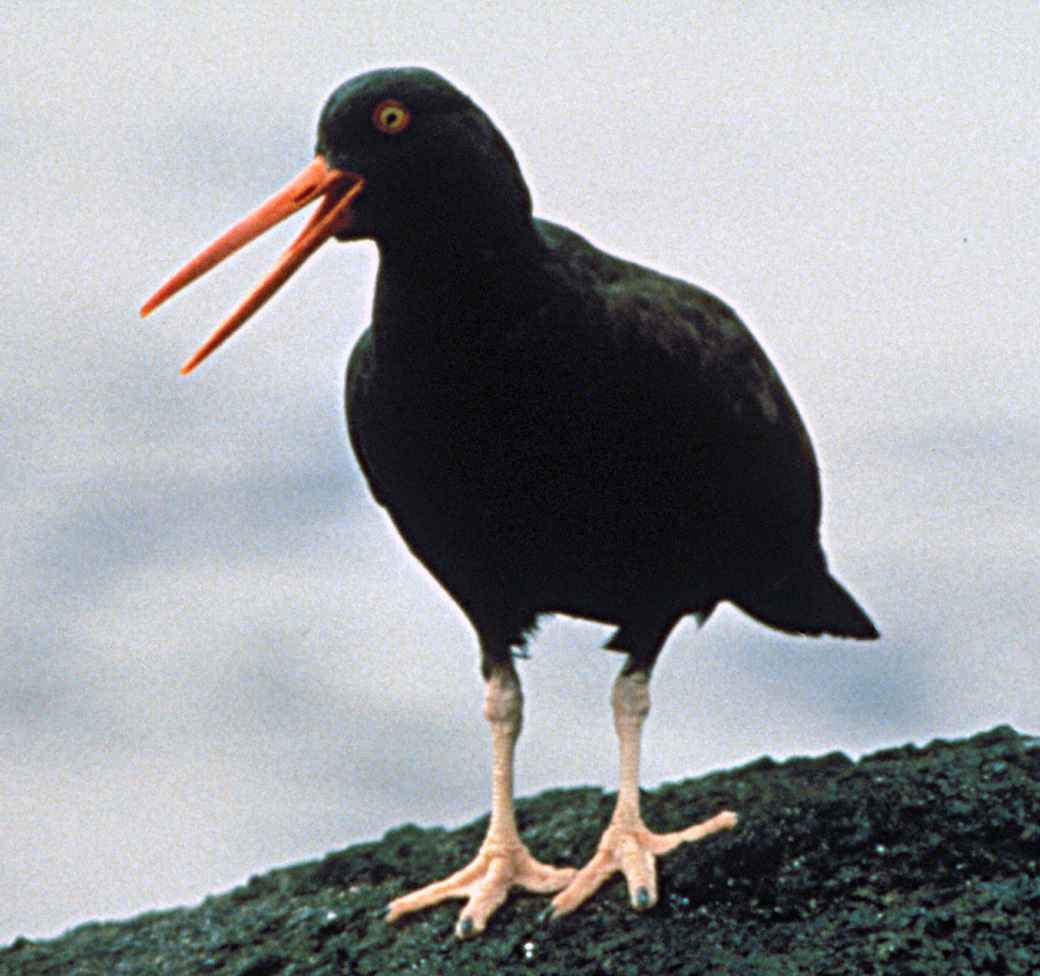 Black oystercatcher (Haematopus bachmani )